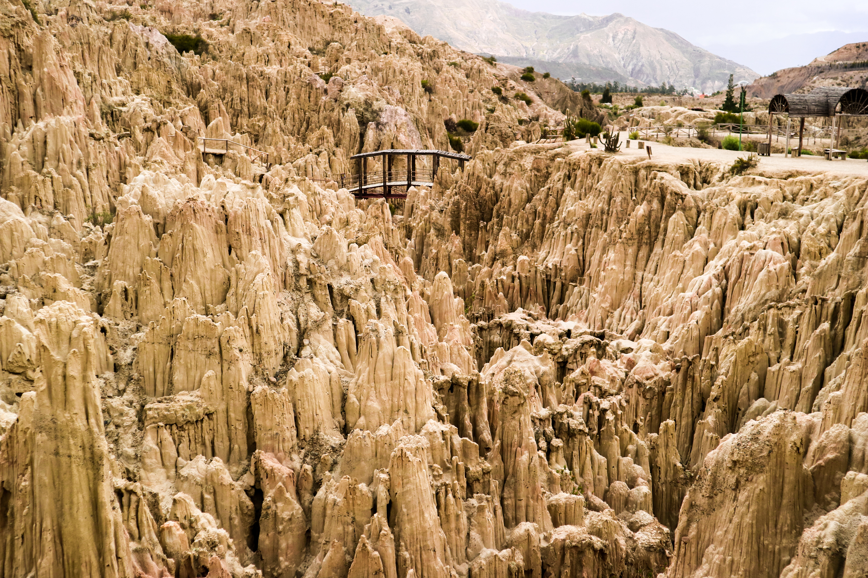 Moon Valley, La Paz, Bolivia